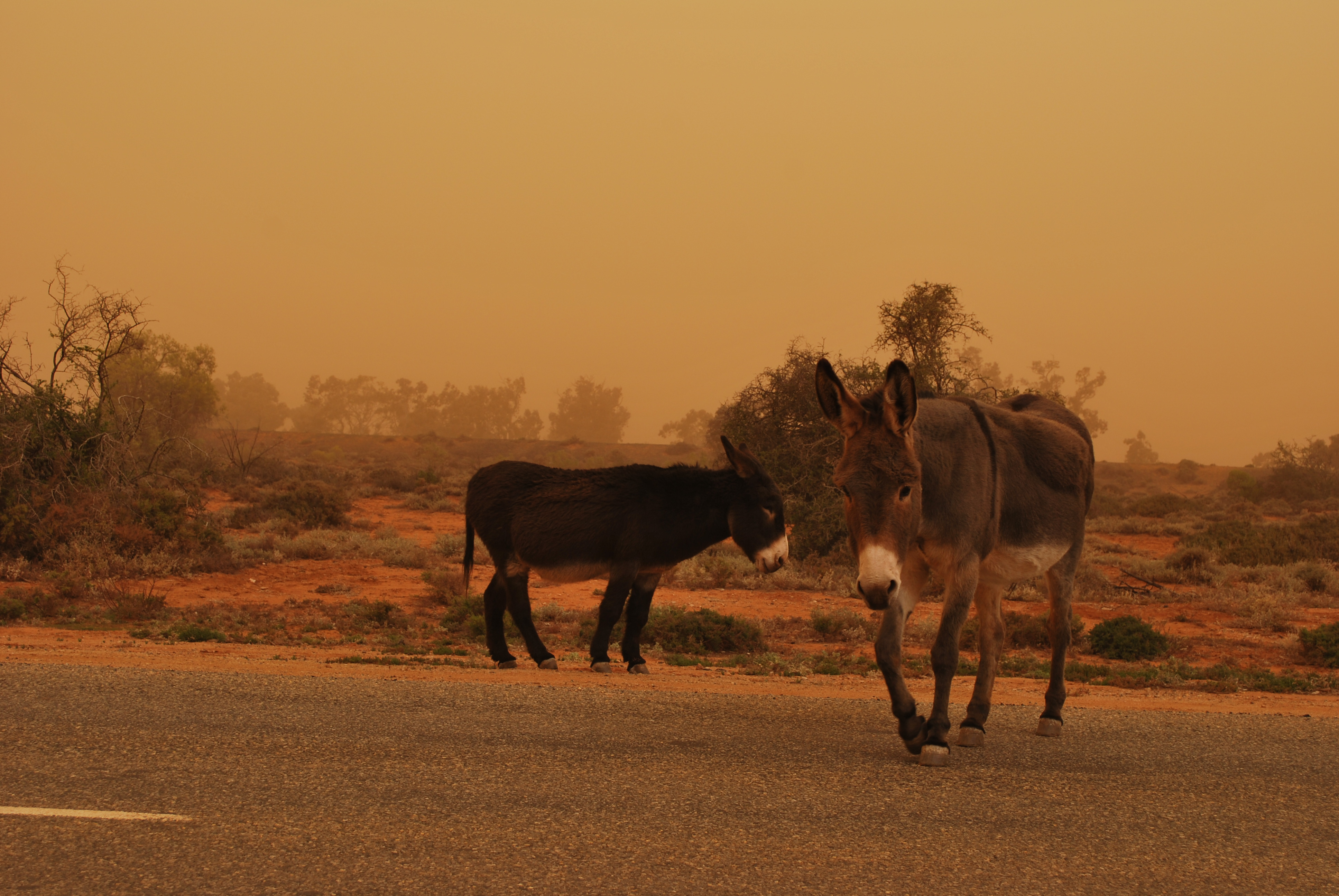 Two donkeys on the road to Broken Hill, and defying a dust storm at Silverton, New South Wales